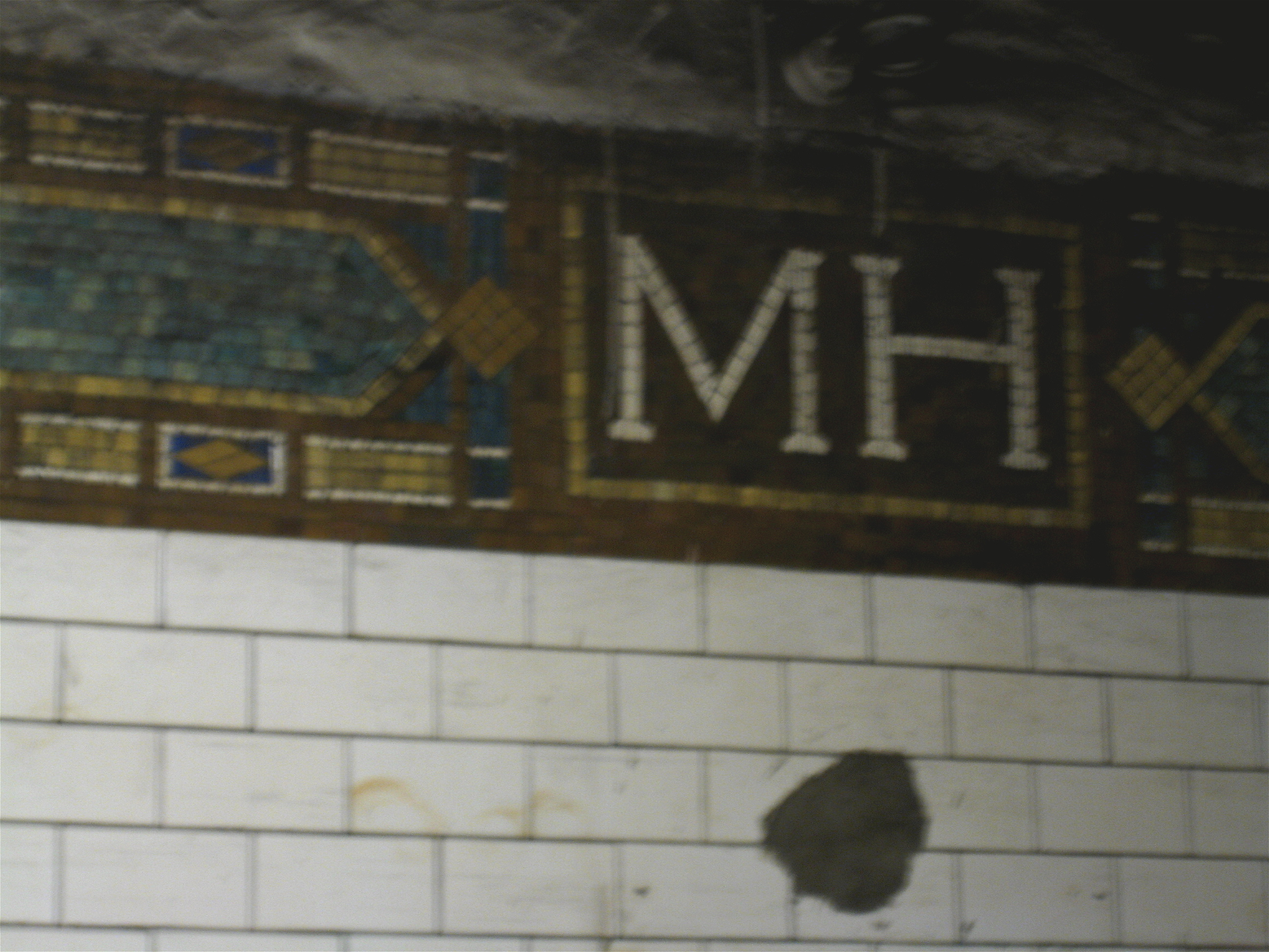 Would be a better picture if I'd used the flash, but it's still clear enough to make an effective Guess Where NYC submission.